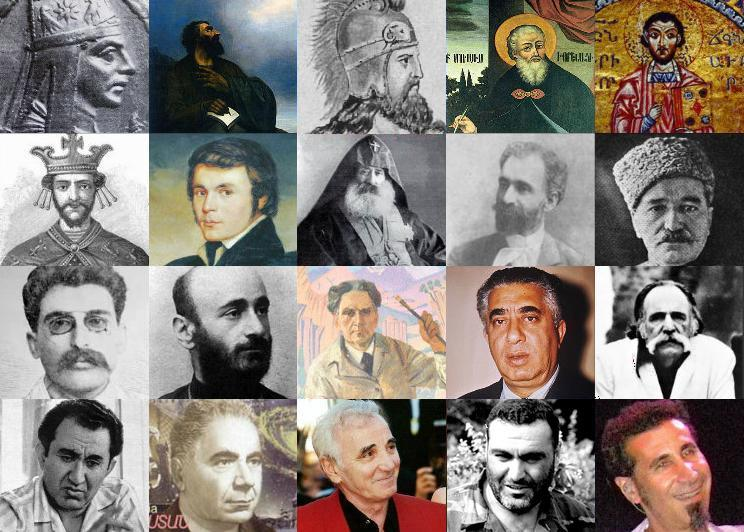 notable Armenians